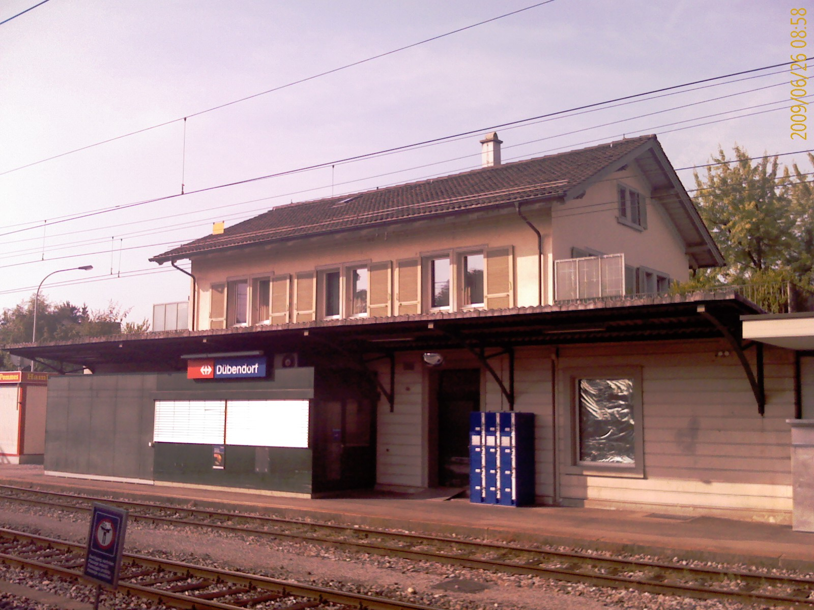 Train station of Dübendorf, canton of Zürich, SwitzerlandEsperanto: Stacidomo de Dübendorf, Kantono Zuriko, Svislando